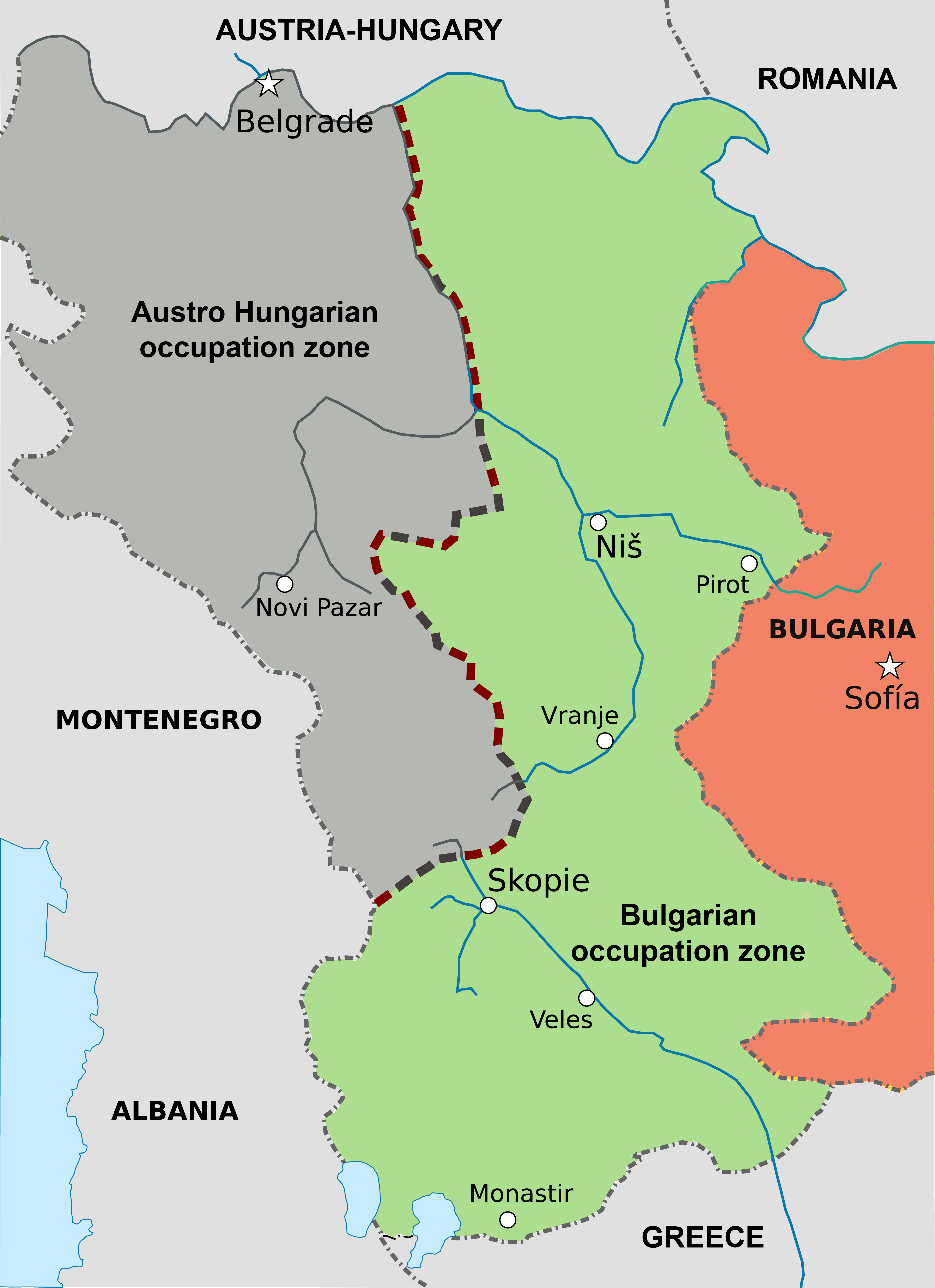 Occupied Serbia during the first world war, the line of demarcation separates. the two occupation zones, Austro-Hungarian and Bulgarian. Serbia was occupied from late 1915 to late 1918